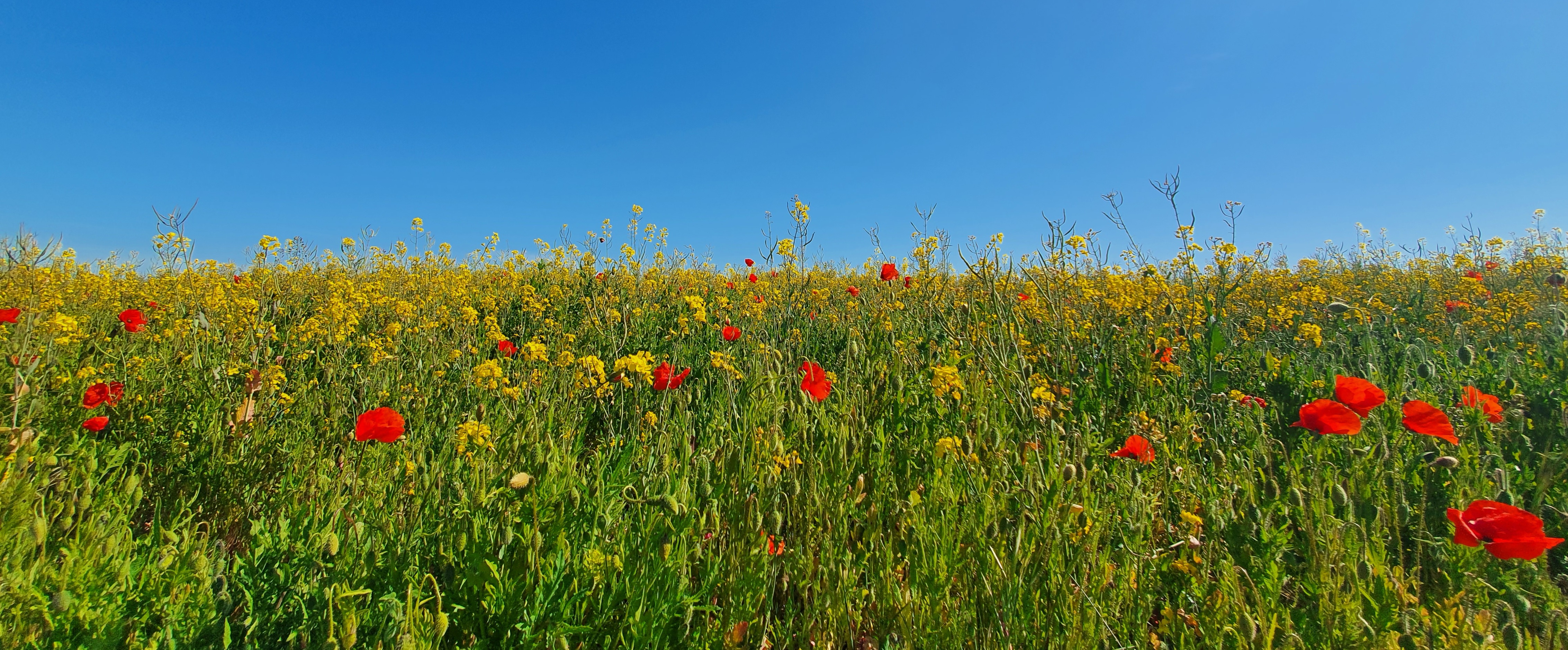 Rapeseed field with Poppies taking in Sherburn Hill, County Durham. 54.7712678, -1.4823288